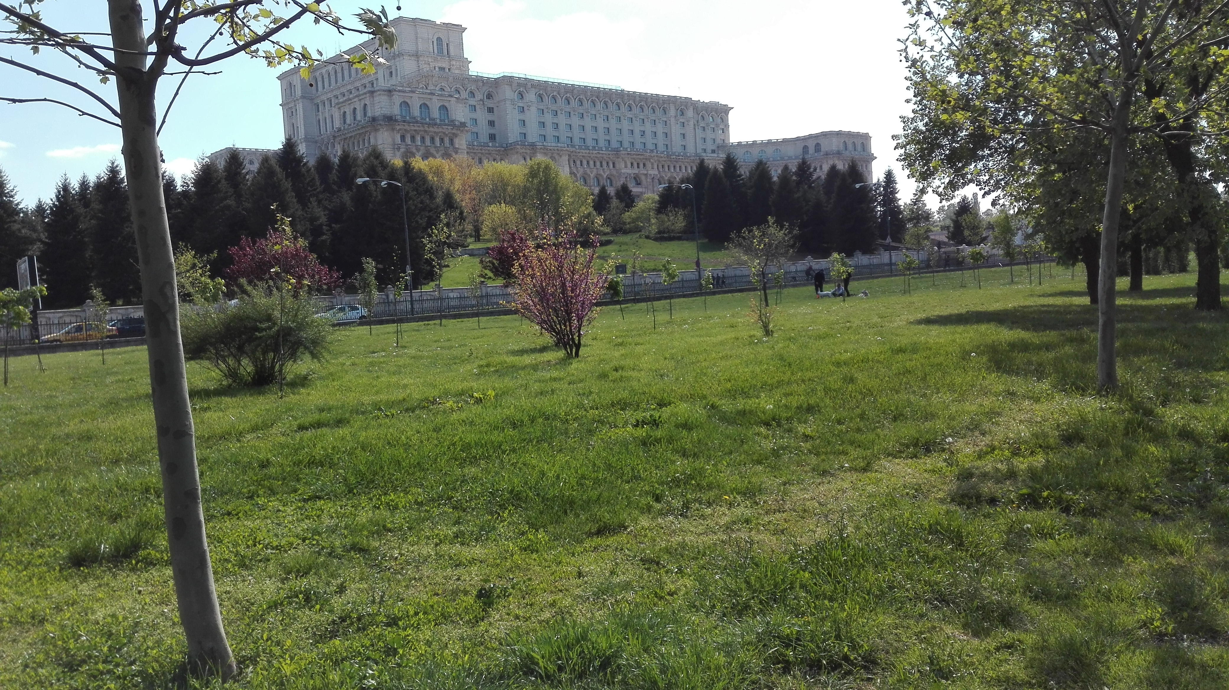 Palace of the Parliament, view from the Izvor Park